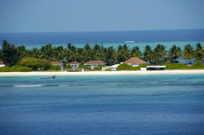 Kadmat Island, Lakshadweep. The water here is very clear and you can see the bottom. This is a lovely place but unfortunately, tourists are not allowed beyond a particular point (I guess due to some security reasons).